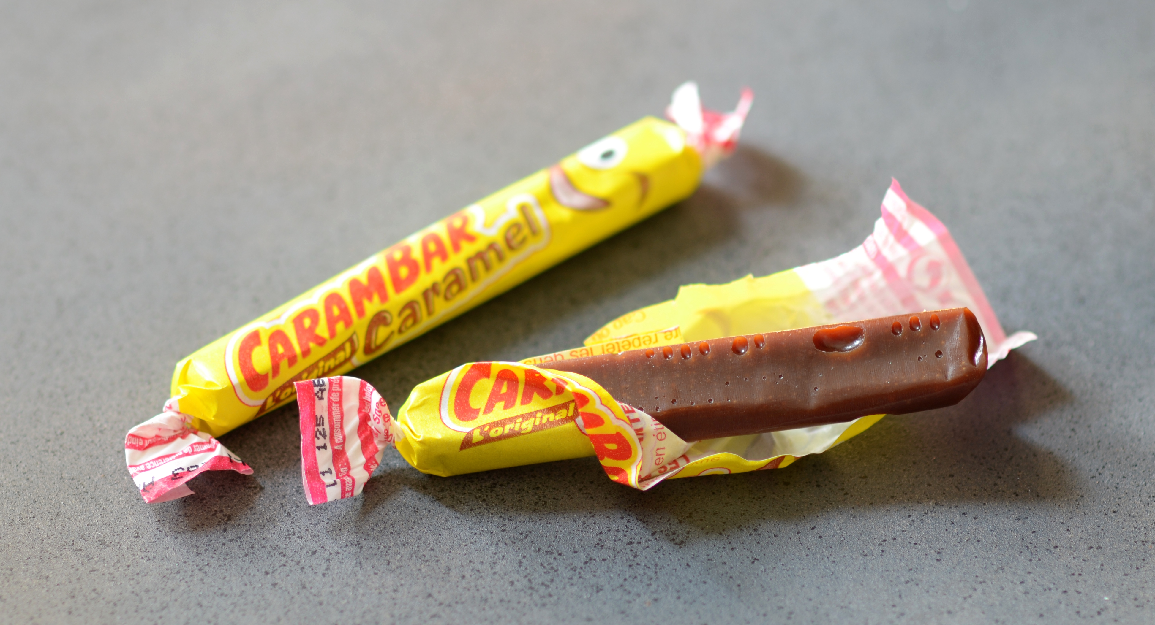 Carambar caramel